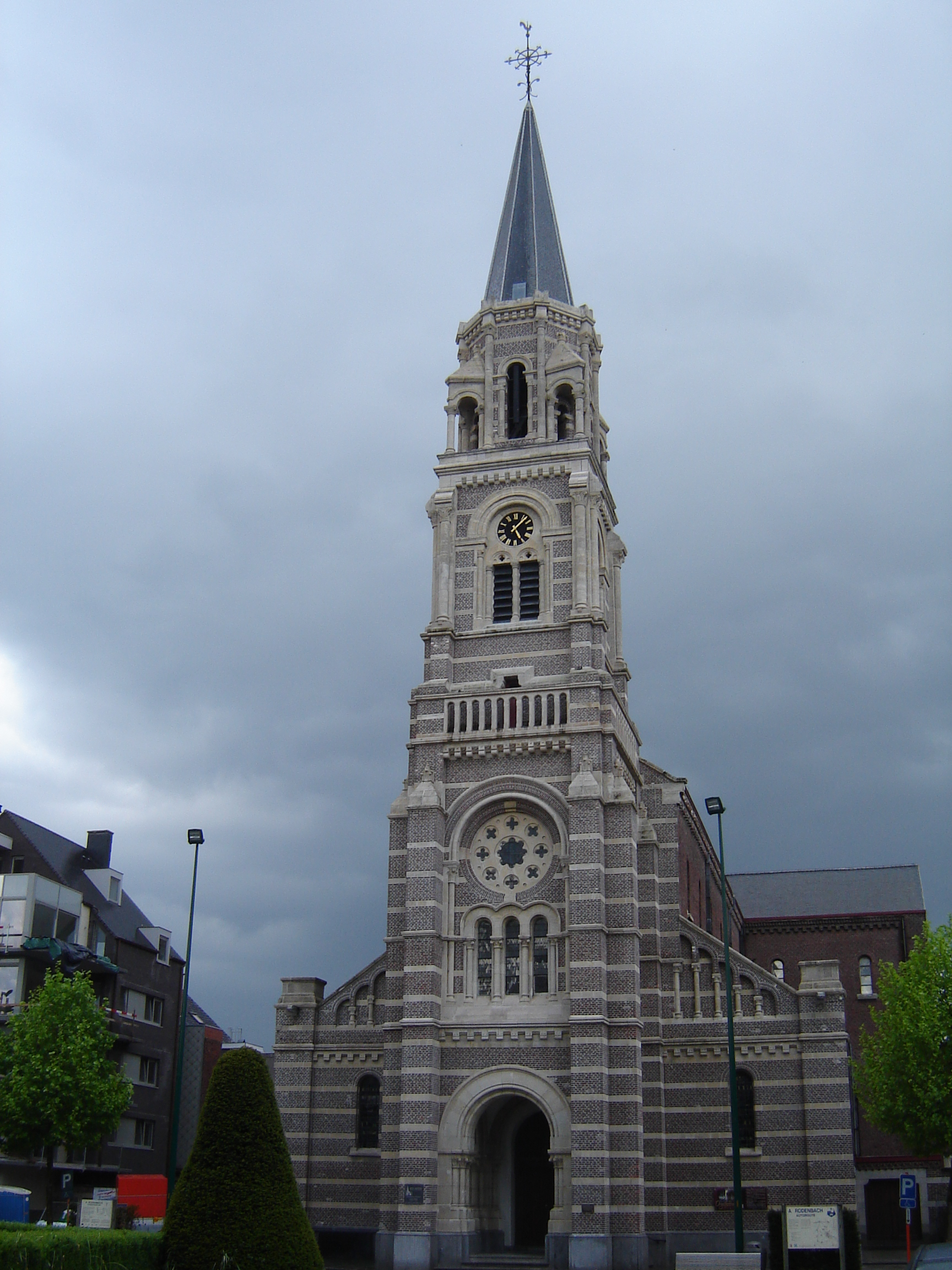 Church of Saint Amand, in Roeselare, West Flanders, Belgium